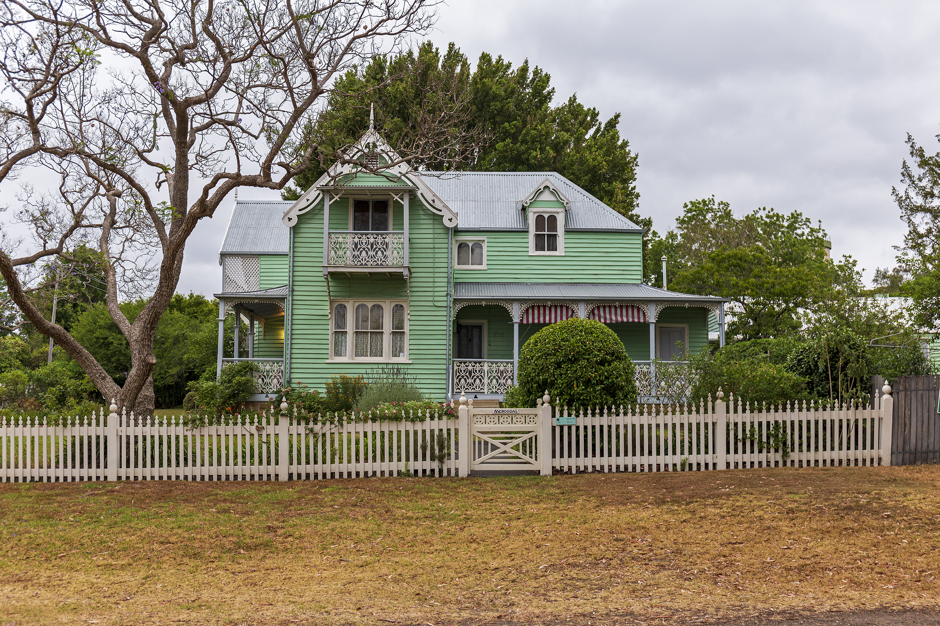 Meroogal viewed from Worrigee St in Nowra.